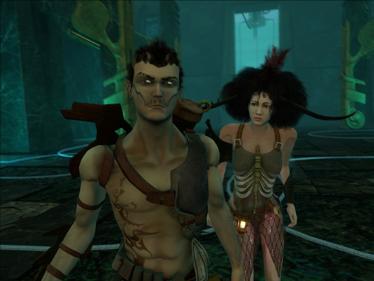 Zeno Clash screenshot. Released in 2009, the game was developed by ACE Team and is powered by Valve Software's Source engine.